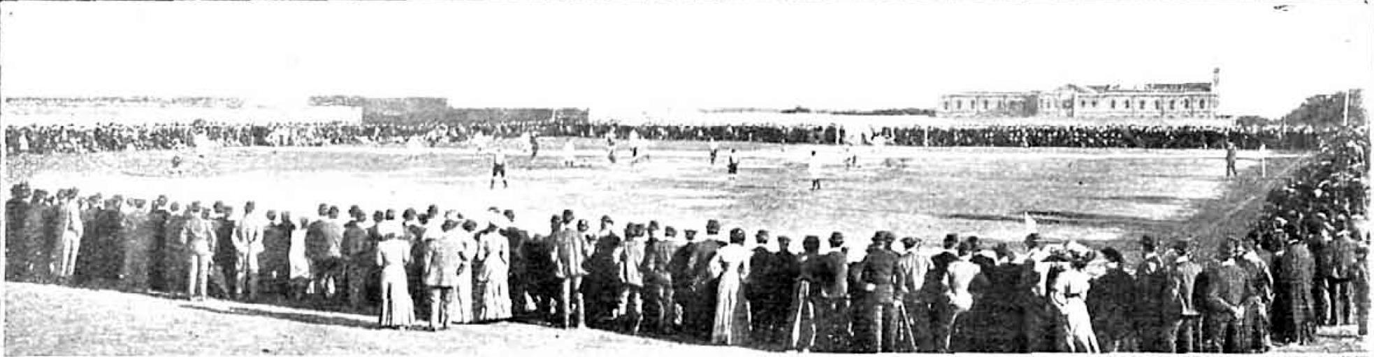 Real Madrid vs. Athletic Club Copa 1905